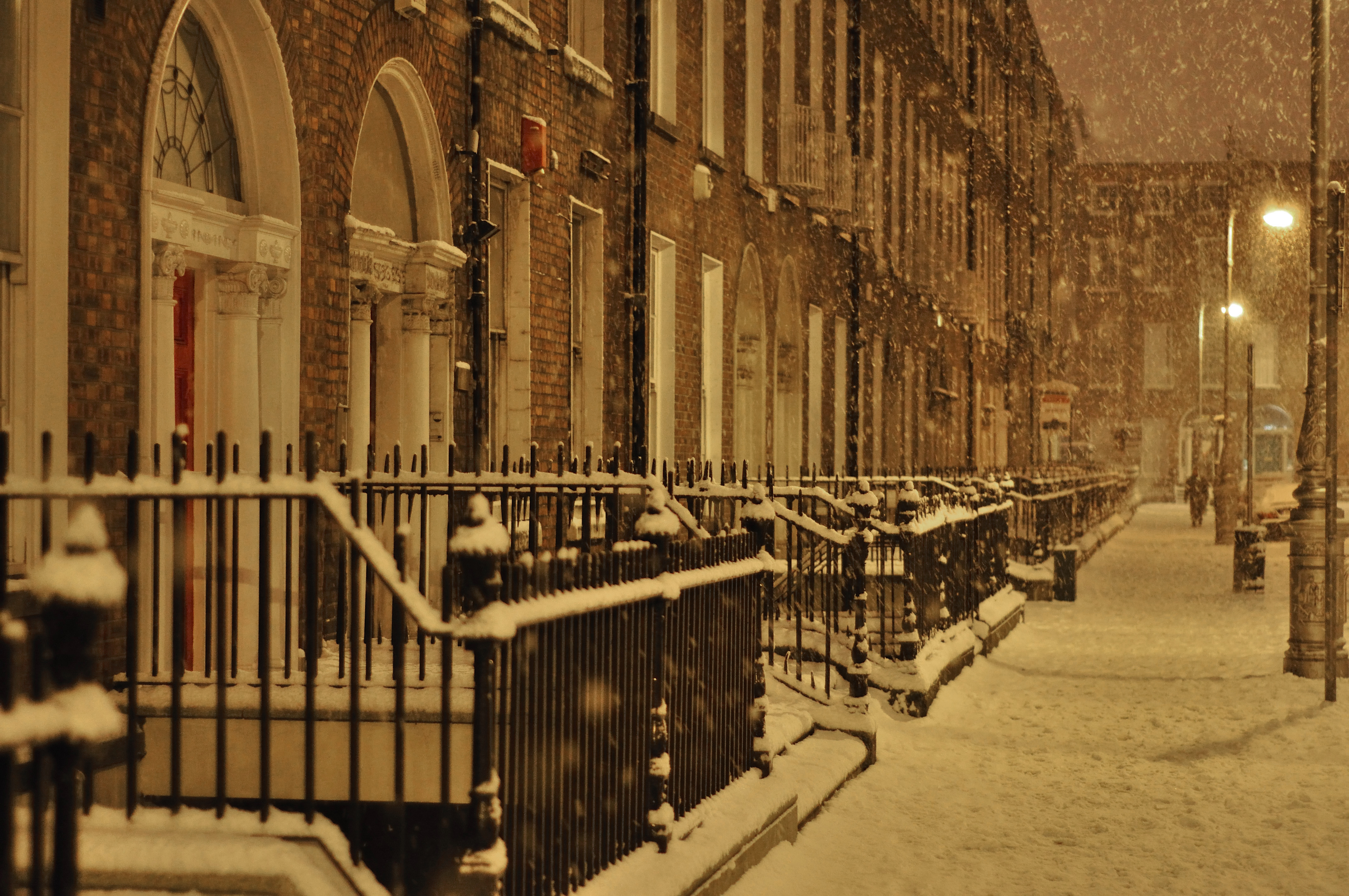 The south side of Mountjoy Square, Dublin, Ireland, in the snow of January 2010